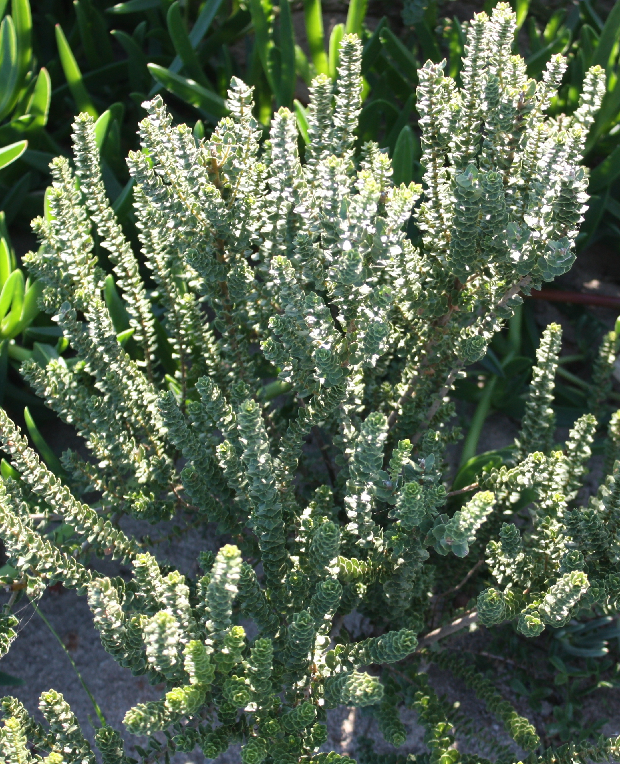 Morella cordifolia. Cape Coastal shrub. South Africa.